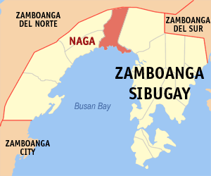 Map of the Zamboanga Sibugay showing the location of Naga